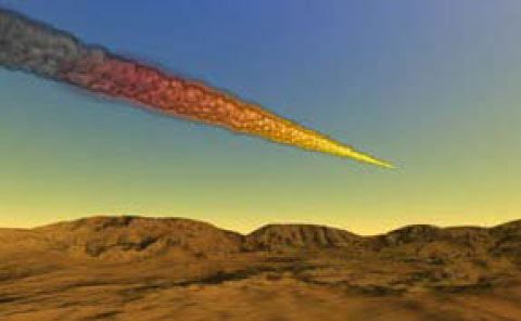 NASA Human Exploration of Mars Design Reference Architecture 5.0) feb 2009